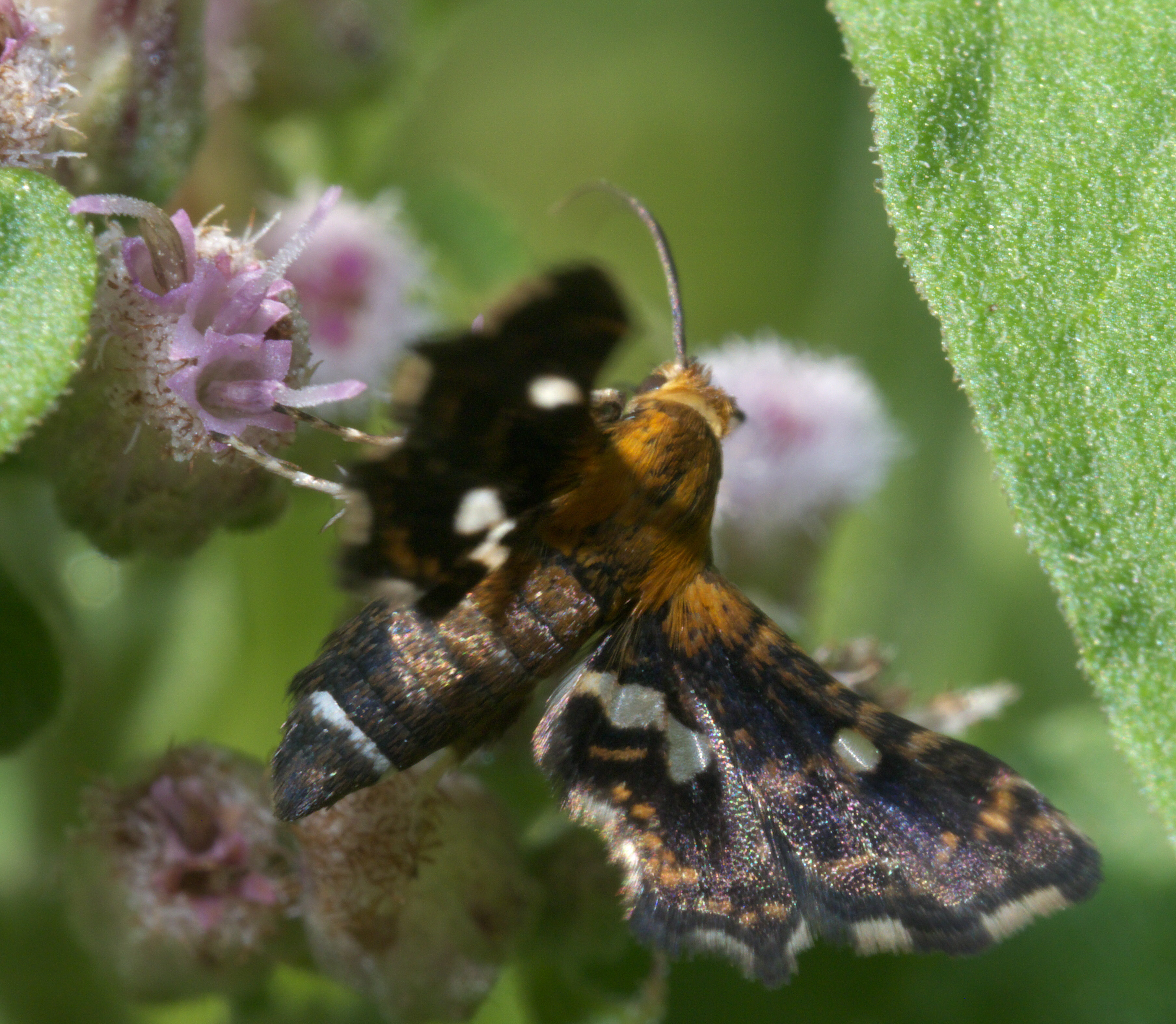 Thyris maculata, Spotted Thyris - Hodges #6076, Size: 7 - 8 mm, ID Confidence: 98